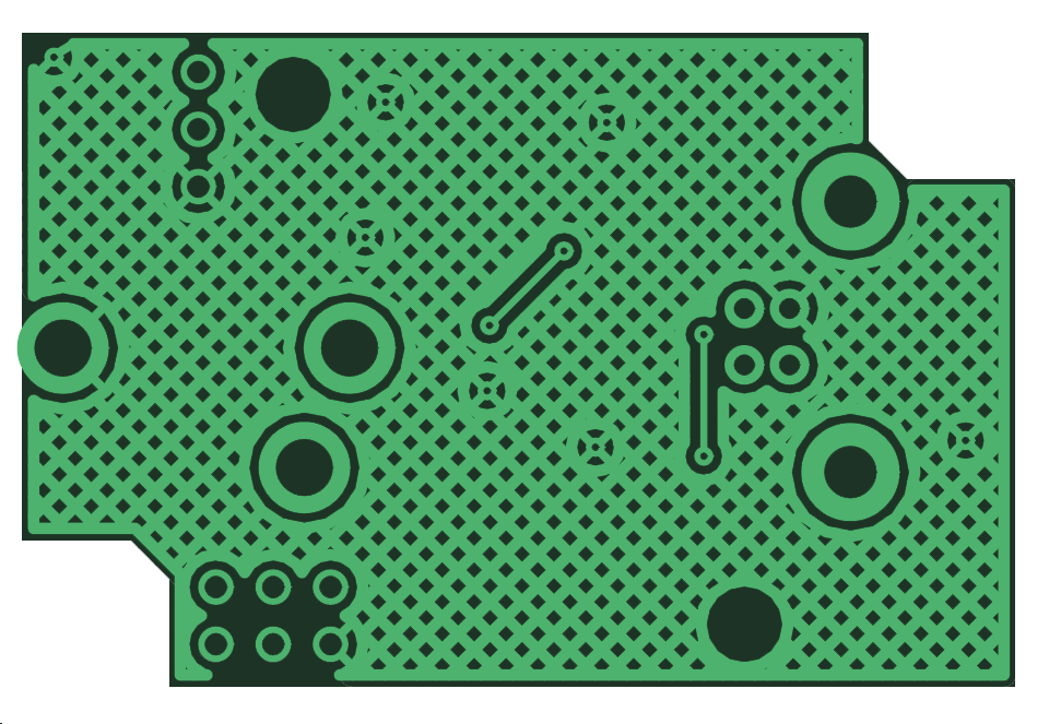 PCB board showing copper pour with a hatch fill